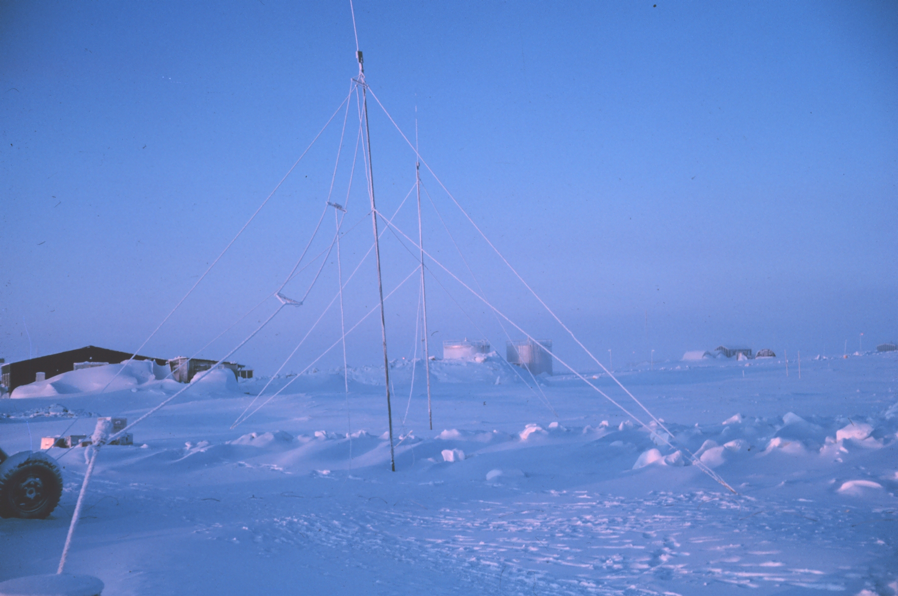 Station Number 129, Nord, Greenland